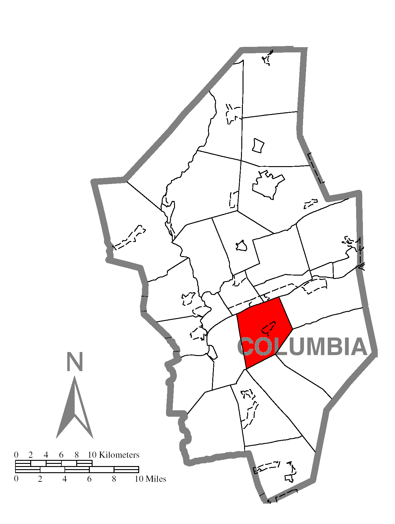 A map of Columbia County showing Main Township, Pennsylvania (alternate) highlighted on the map.